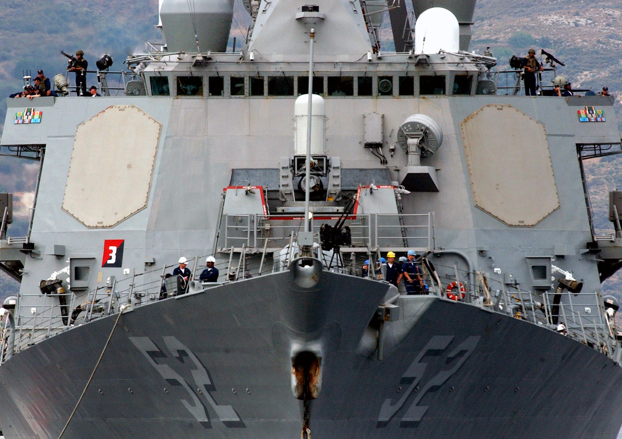 The USS Barry arrives in Souda Bay, Crete, Greece, for a routine port visit on July 13, 2006. The guided-missile destroyer is scheduled to participate in the multinational exercise Sea Breeze 2006 in the Black Sea. Conducted between the nations of Georgia, Greece, Turkey, Ukraine and the United States, Sea Breeze is a series of scenario-based exercises designed to advance the cooperation of participating nations and increase regional maritime domain awareness, maritime security, and interoperability.